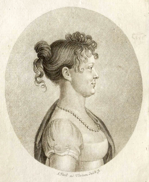 Catharine Wernicke, af Andreas Flindt fra Bärens, Johan Hendrich: Noticer for Musiklibhavere, 1811